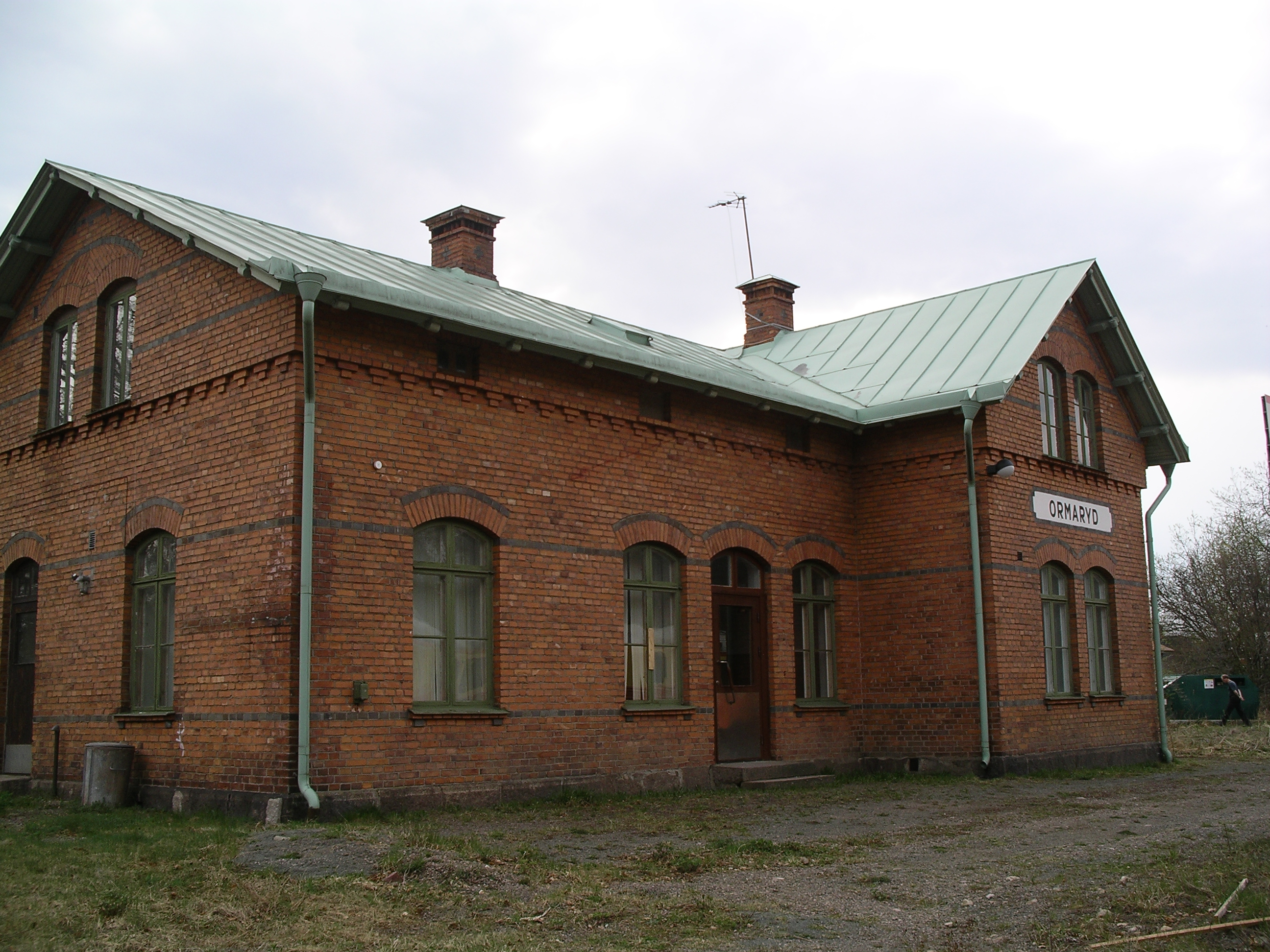 Railway station Ormaryd in Sweden